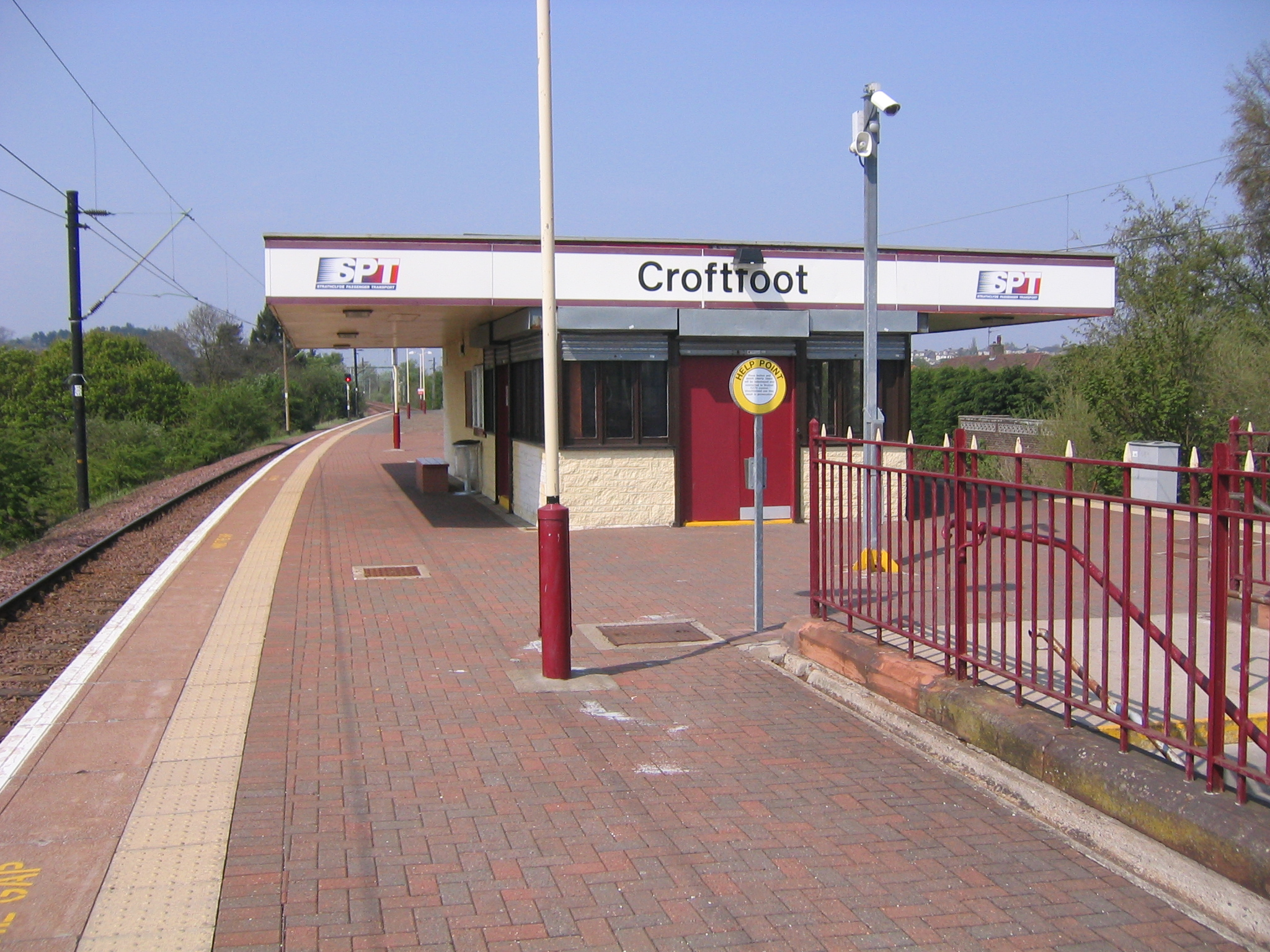 Croftfoot railway station in Glasgow